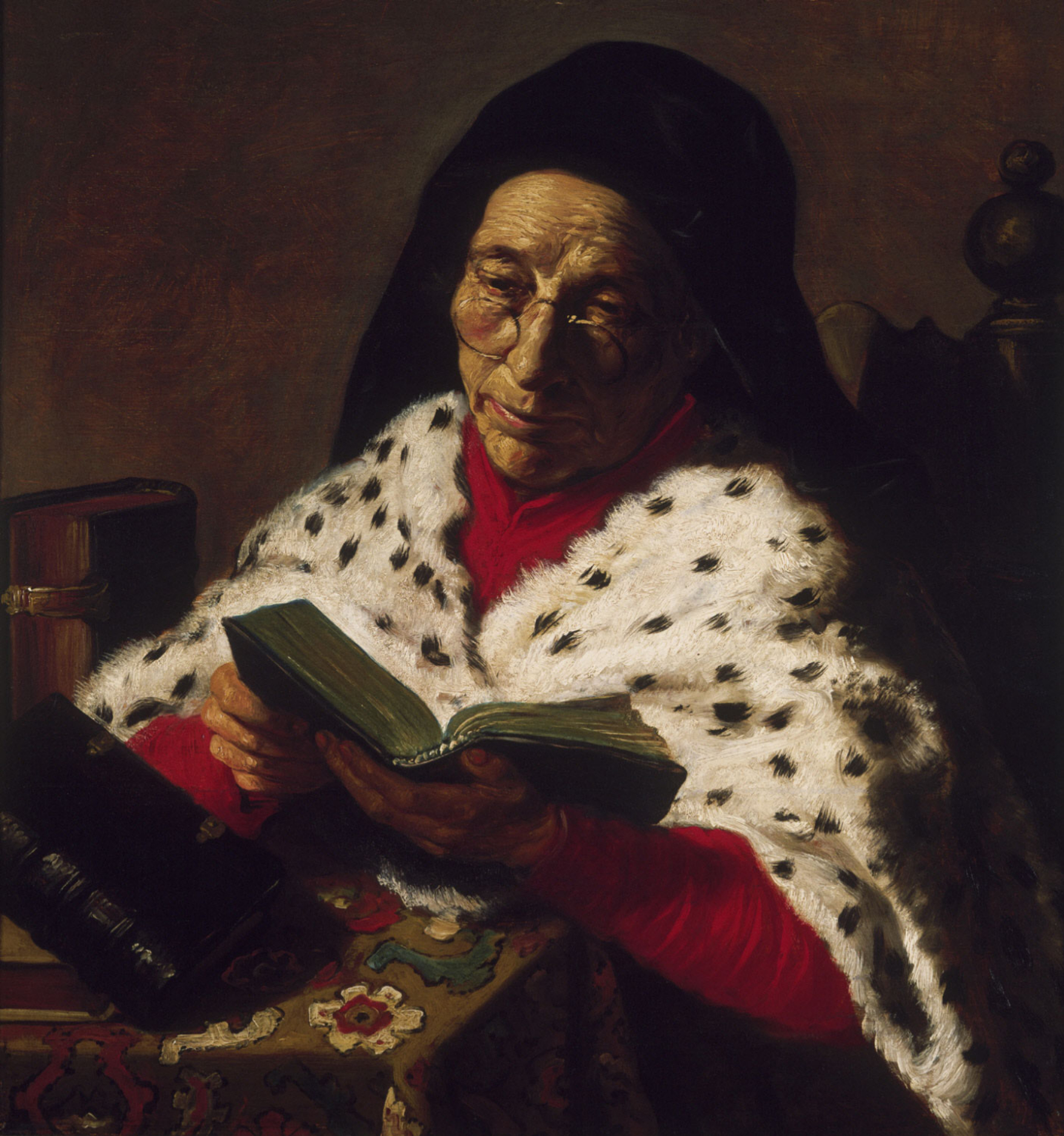 This image is available from the Netherlands Institute for Art Historyunder digital ID 249071. This tag does not indicate the copyright status of the attached work. A normal copyright tag is still required. See Commons:Licensing.